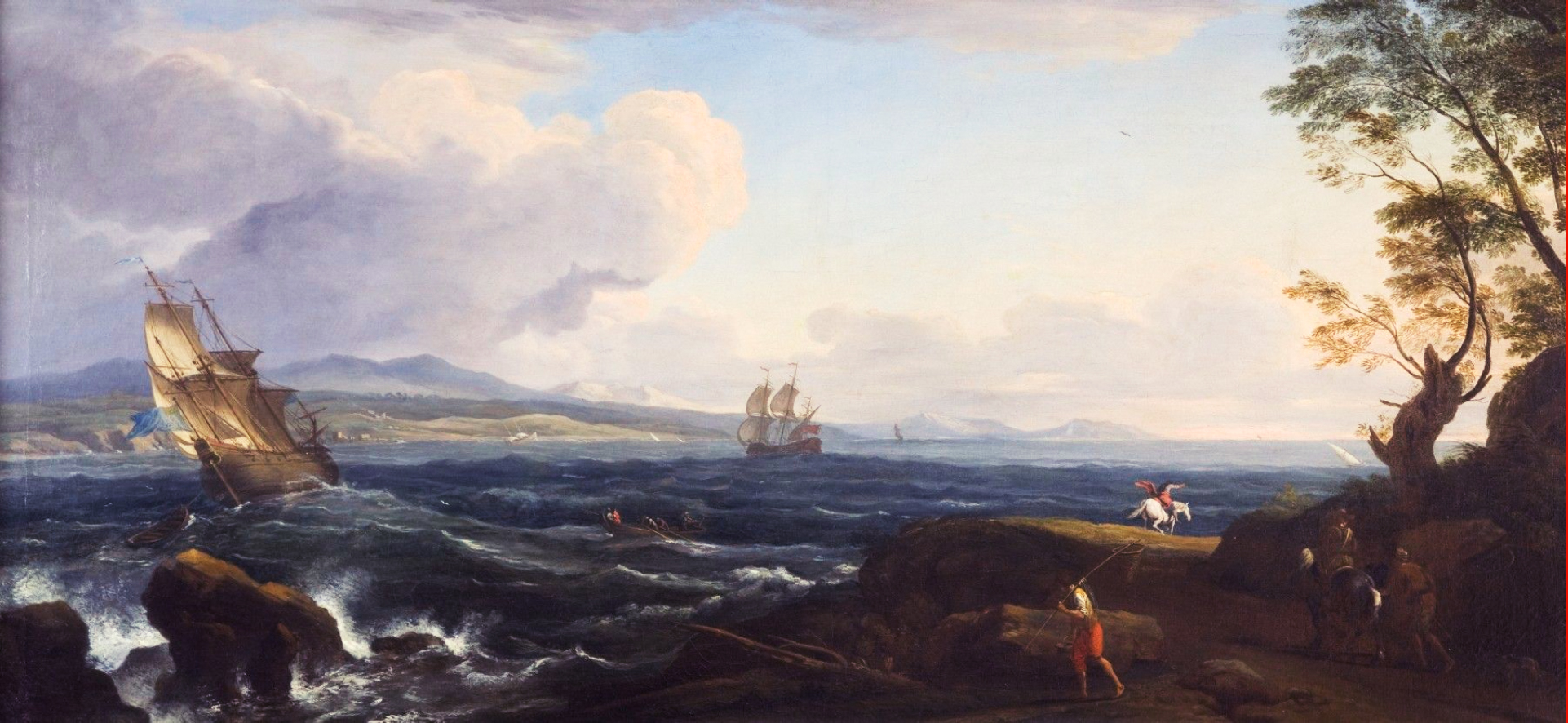 Fishermen and horsemen on a rocky coast oil on canvas 56 x 122 cm